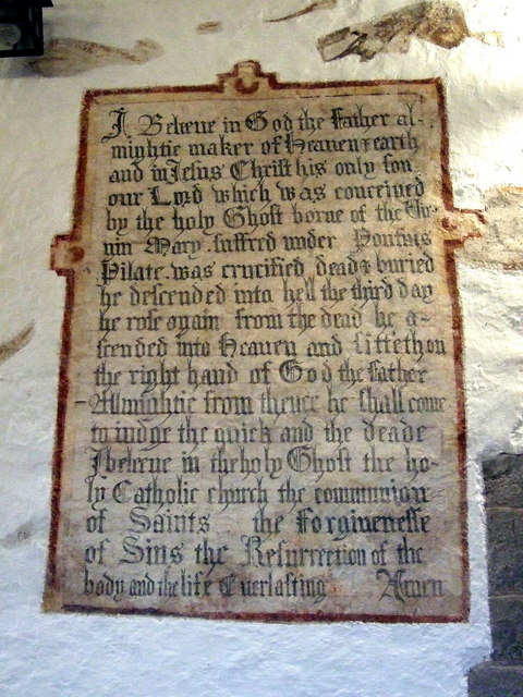 Wall painting at Partrishow (3) The Apostles' Creed. Note the scraps of paintwork around the panel: there may be a palimpsest of images here, with possibly most or all the walls painted in the mediaeval period.